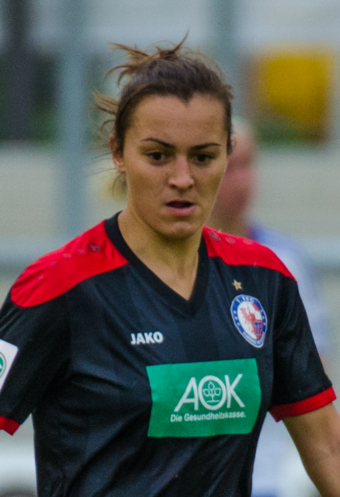 Match of the German Women's Football Bundesliga between 1.FFC Frankfurt and 1. FFC Turbine Potsdam, 2015-09-13